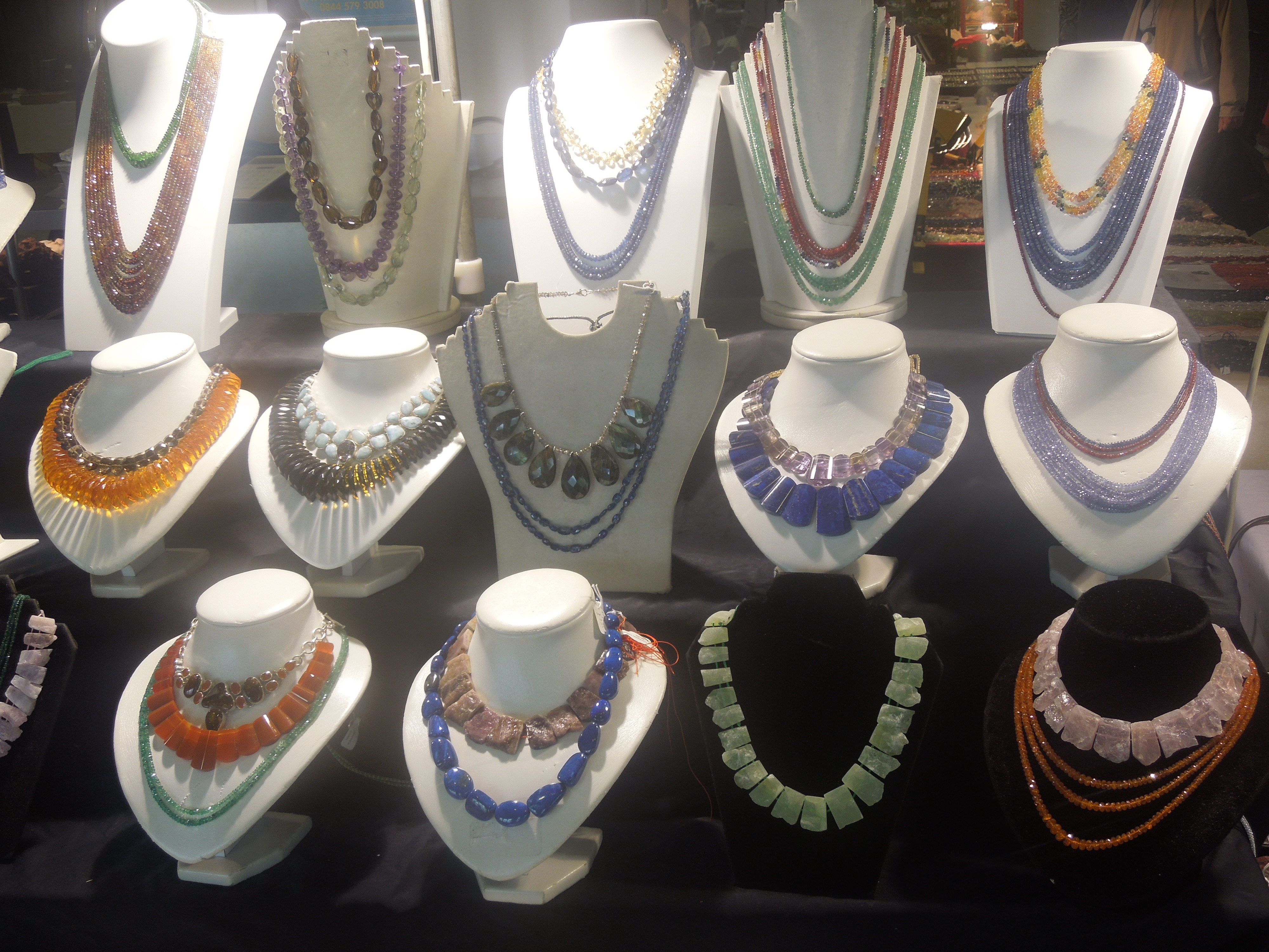 Photo of the Rock Gem 'n' Bead Show (August 4 and 5, 2012, Kempton Park Racecourse, London, United Kingdom).